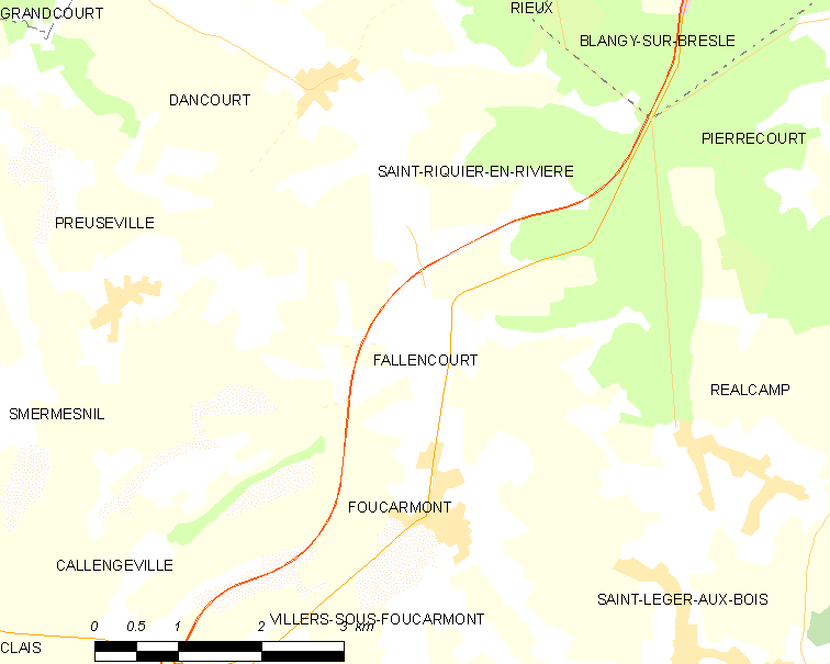 Map of French municipality Fallencourt